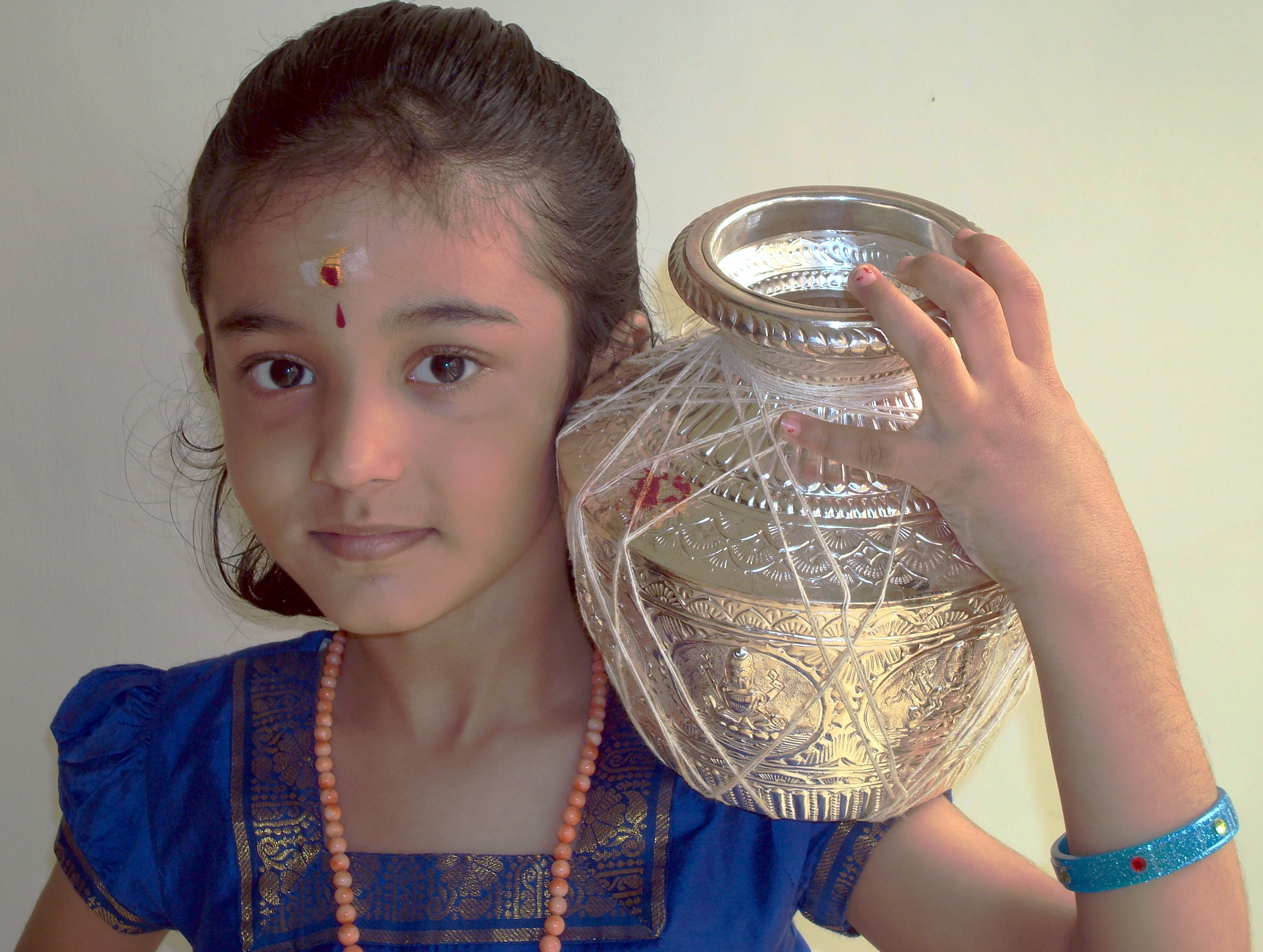 Pongal, in Tamil, also known as Makara Sankranti elsewhere is a farmers thanks giving day. Nandithaa is preparing to celebrate the Harvest Festival, Carrying holy water in silver pot.